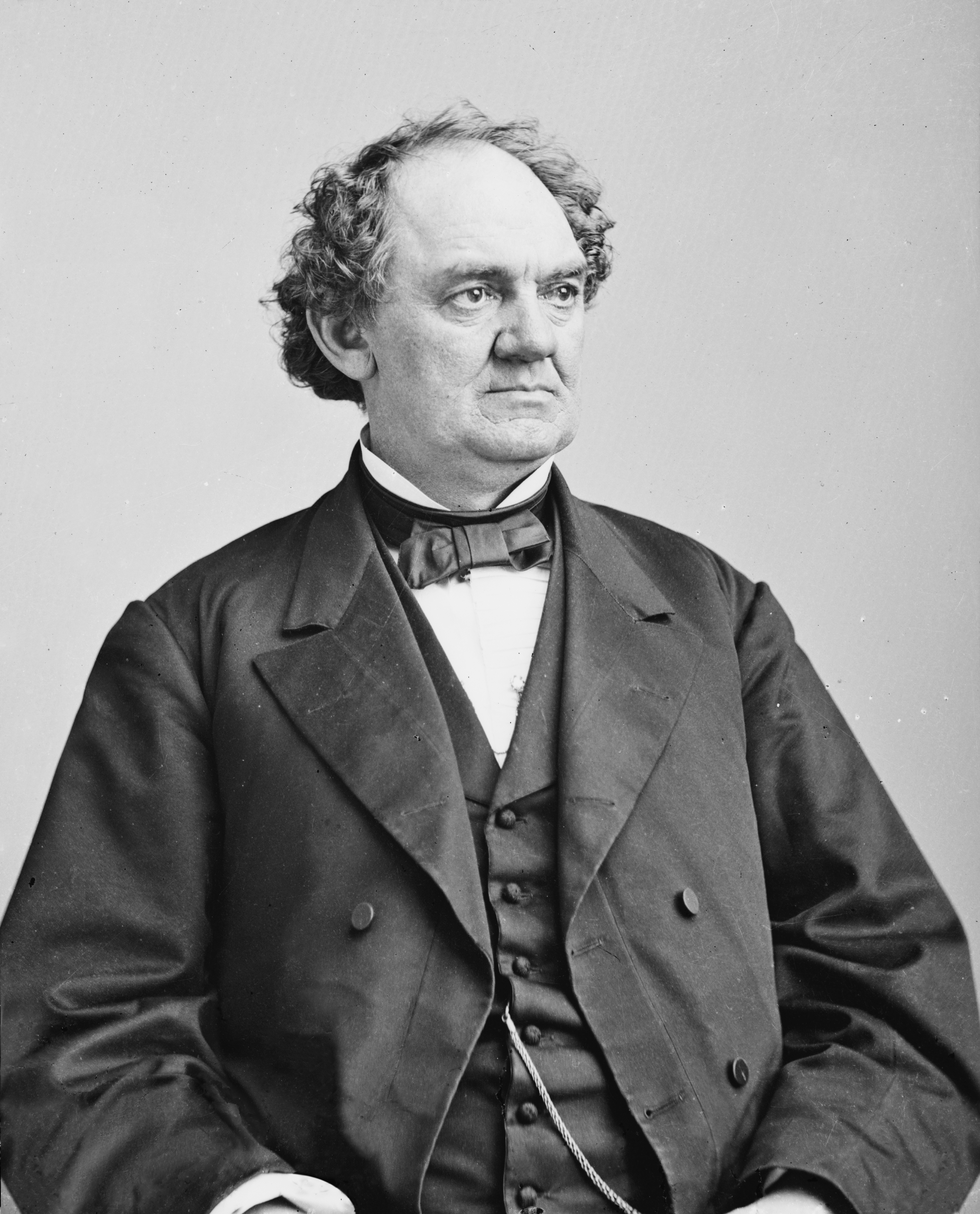 Photograph of P.T. Barnum.